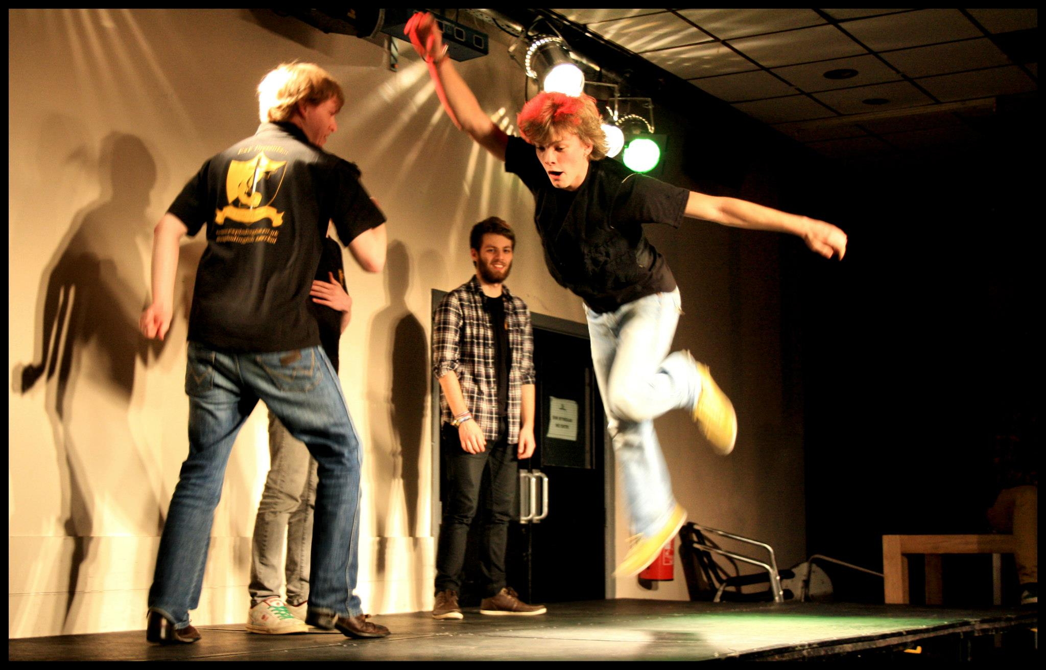 Exploding Fish Improv Varsity Match against Bangor Comedy 2013